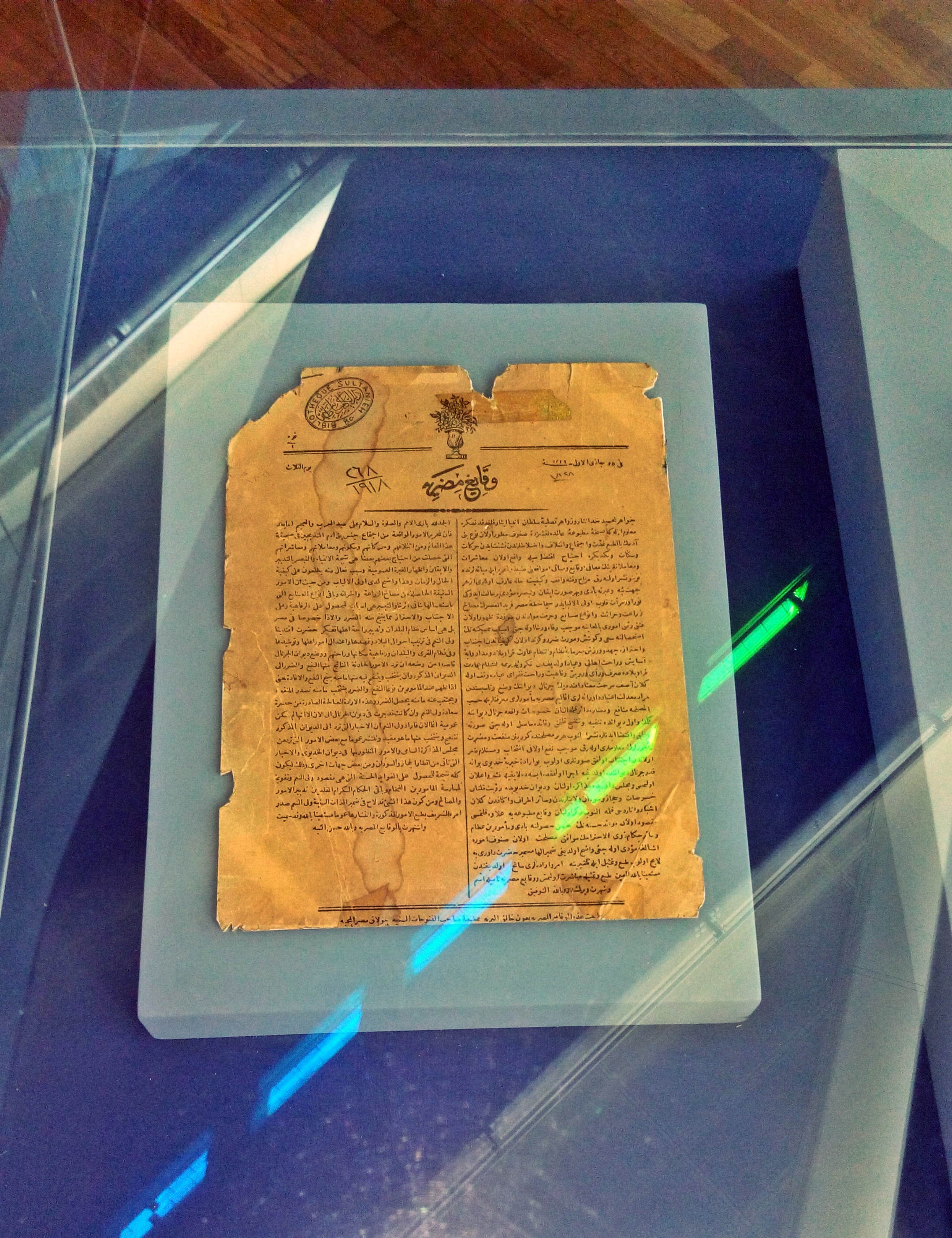 The first edition of Al-Waqa'i'a al-Masriya in 1828